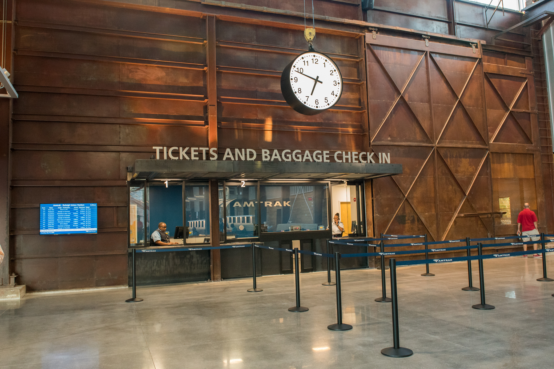 6:48am at the Tickets and Baggage Check-In, inside Raleigh Union Station.